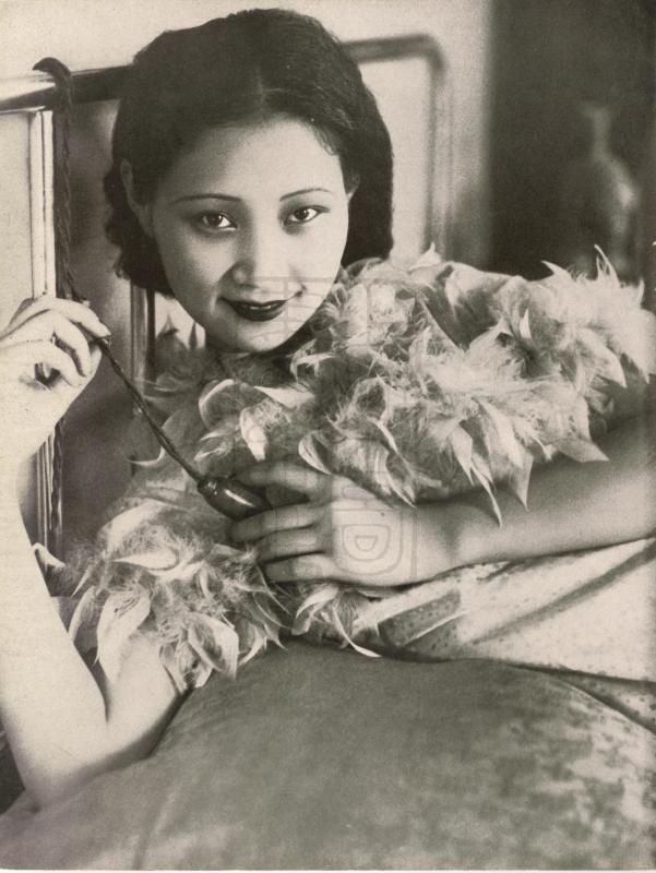 1930s Shanghai actress Xu Lai